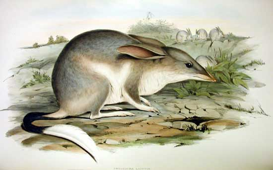 Macrotis lagotis